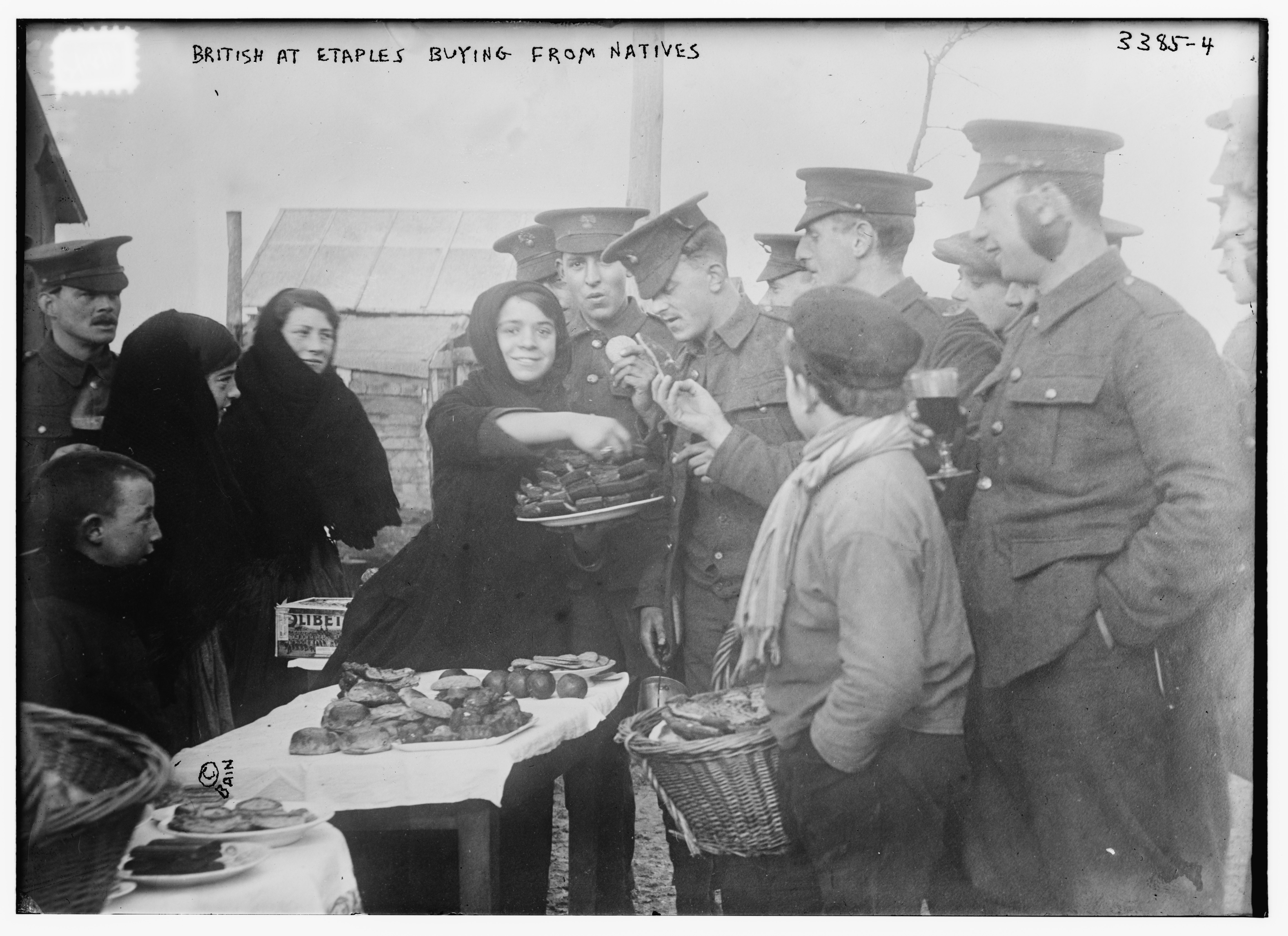 Title: British at Etaples buying from natives Abstract/medium: 1 negative : glass ; 5 x 7 in. or smaller.